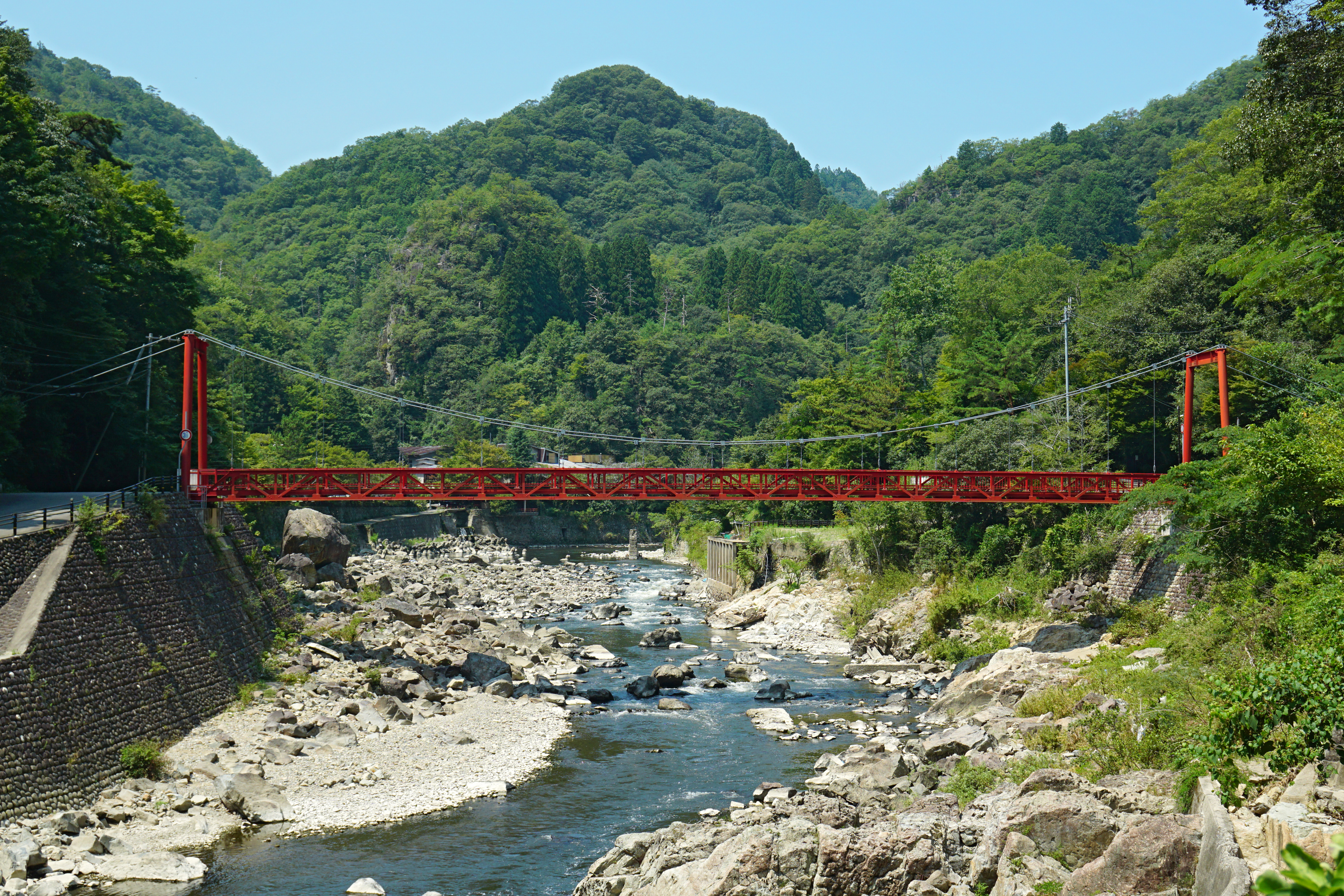 At Takedao Onsen in Takarazuka, Hyogo prefecture, Japan